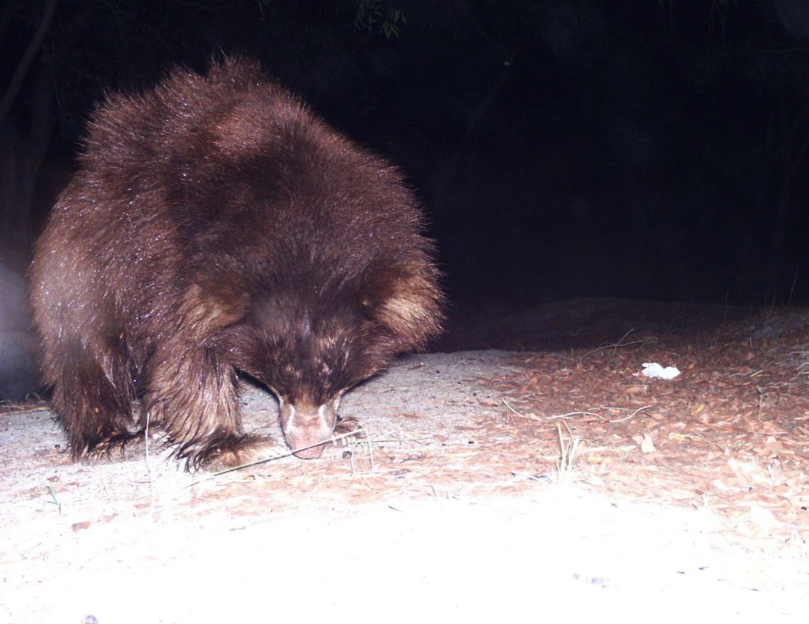 Sloth bear with rusty/brown coat/fur from forests of Dahod, Gujarat, India